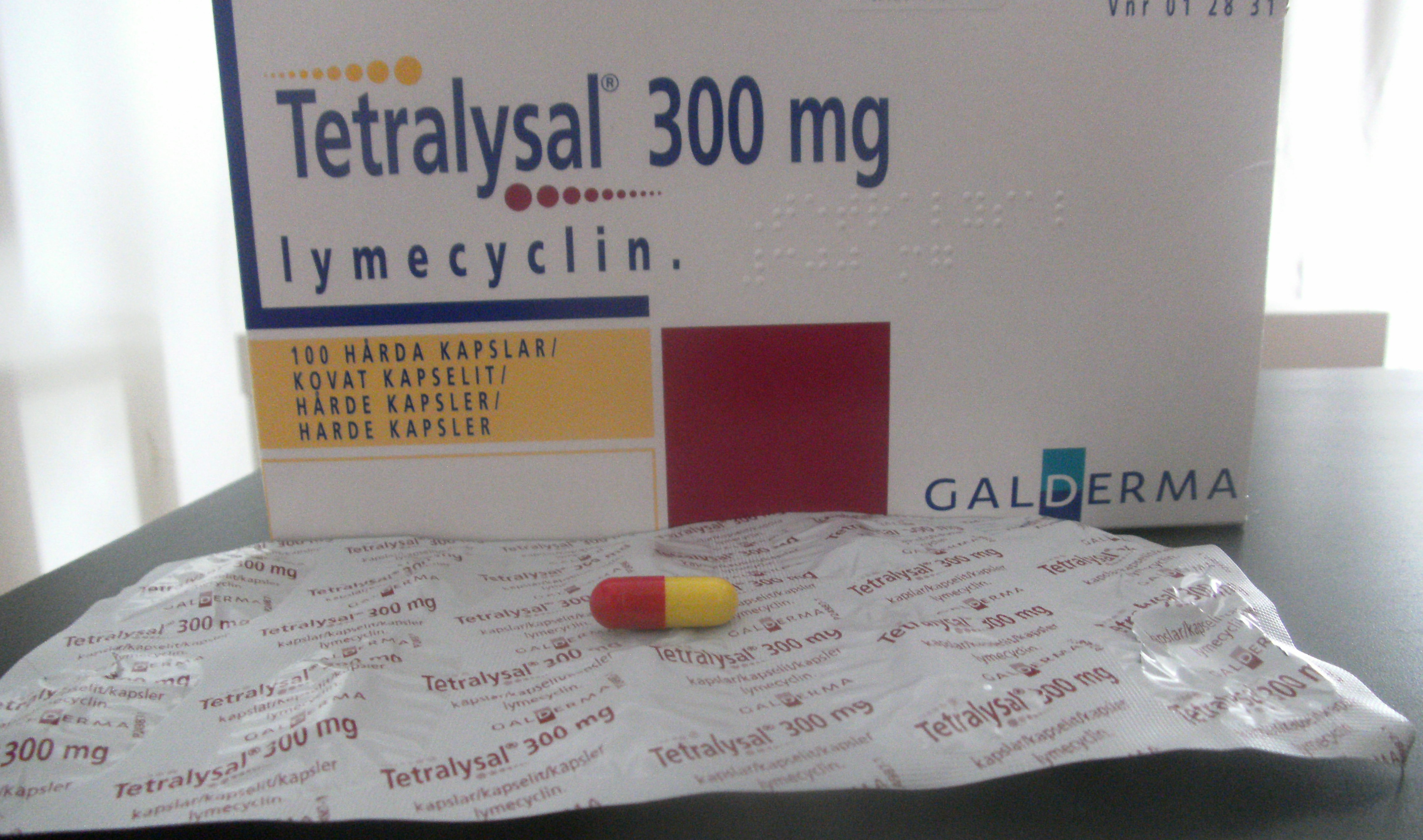 Tetracycline under the brand Tetralysal. (sweden)